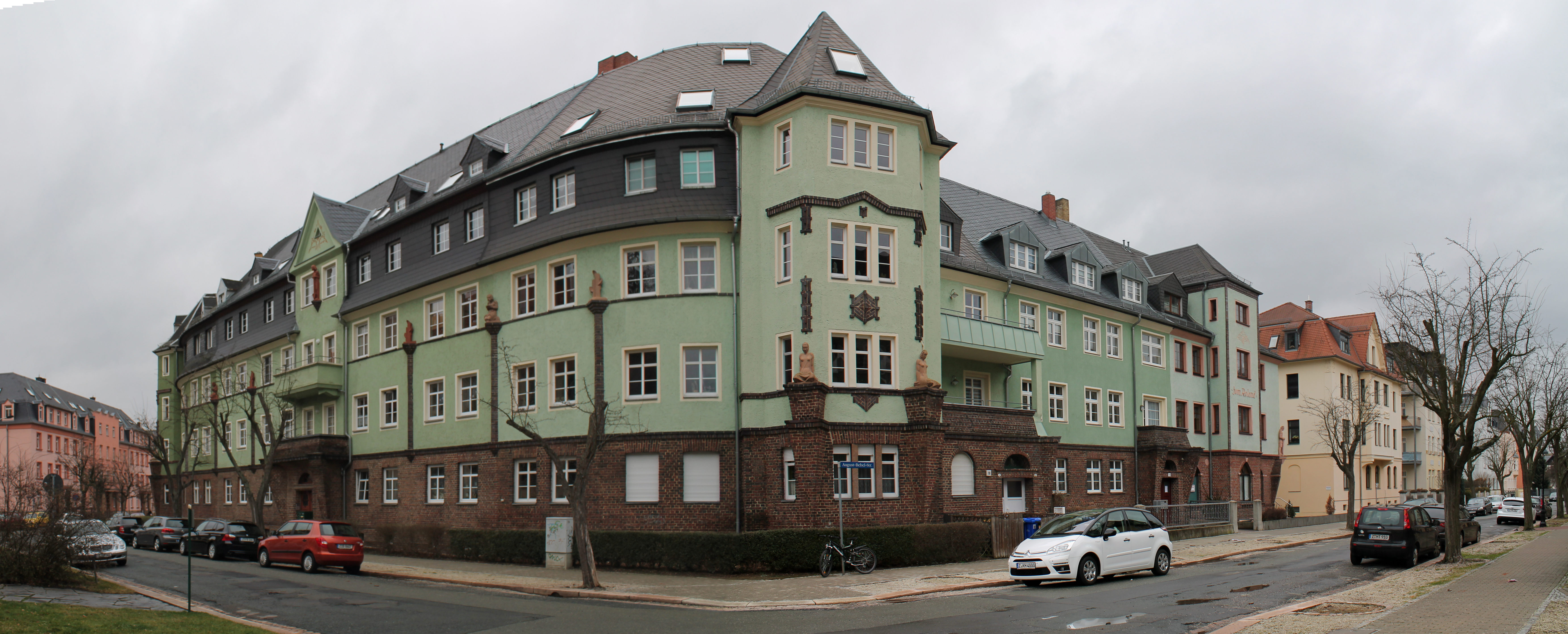 Northern suburb of Zwickau, Saxony, Germany.